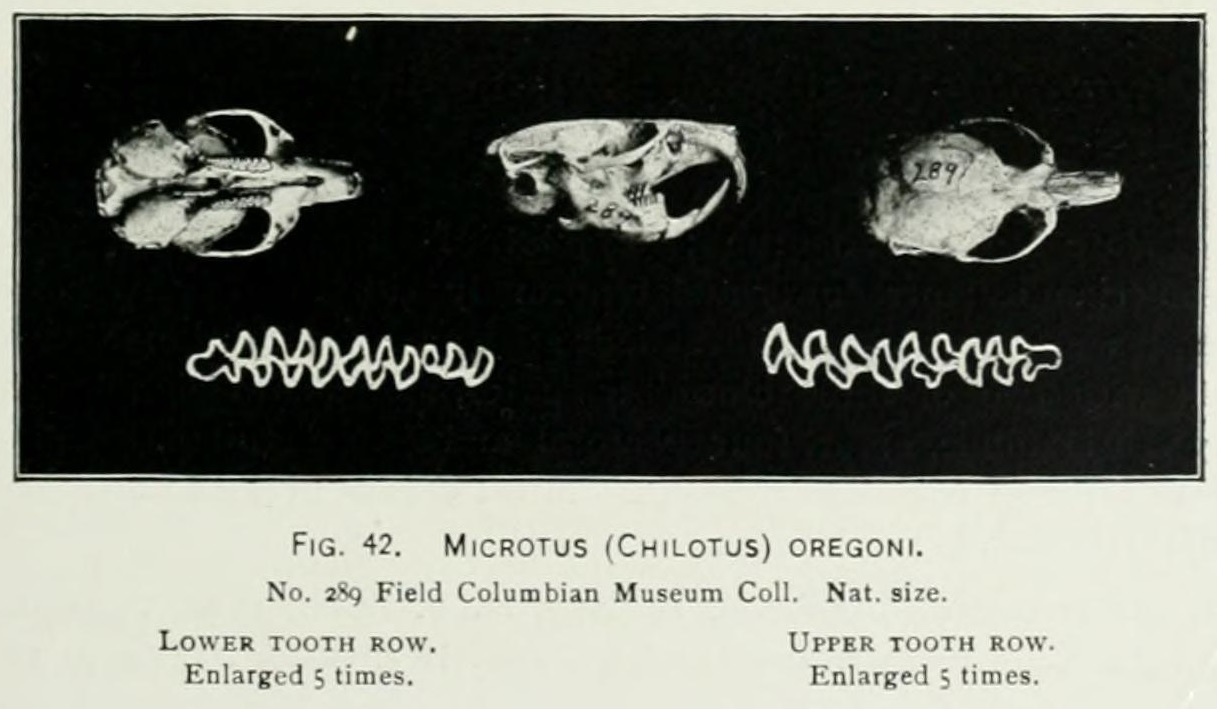 Microtus oregoni skull from A synopsis of the mammals of North America and the adjacent seas (Elliot 1901)